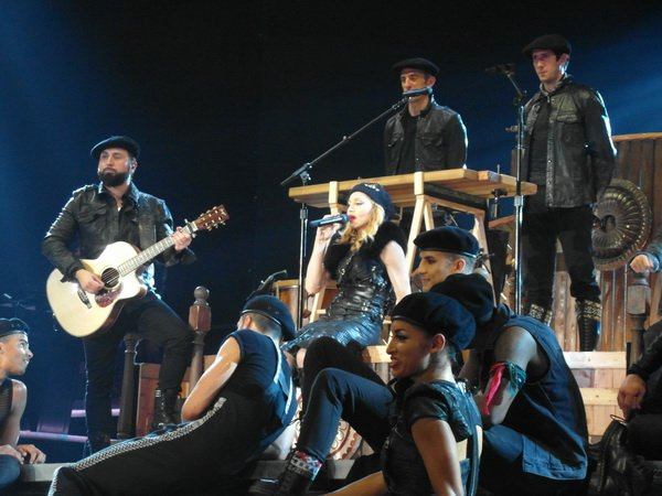 Madonna concert in Barcelona